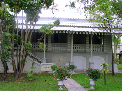 The house of Cha Chom Maanda Saer within Bang Pa-In Palace, Ayutthaya, Thailand